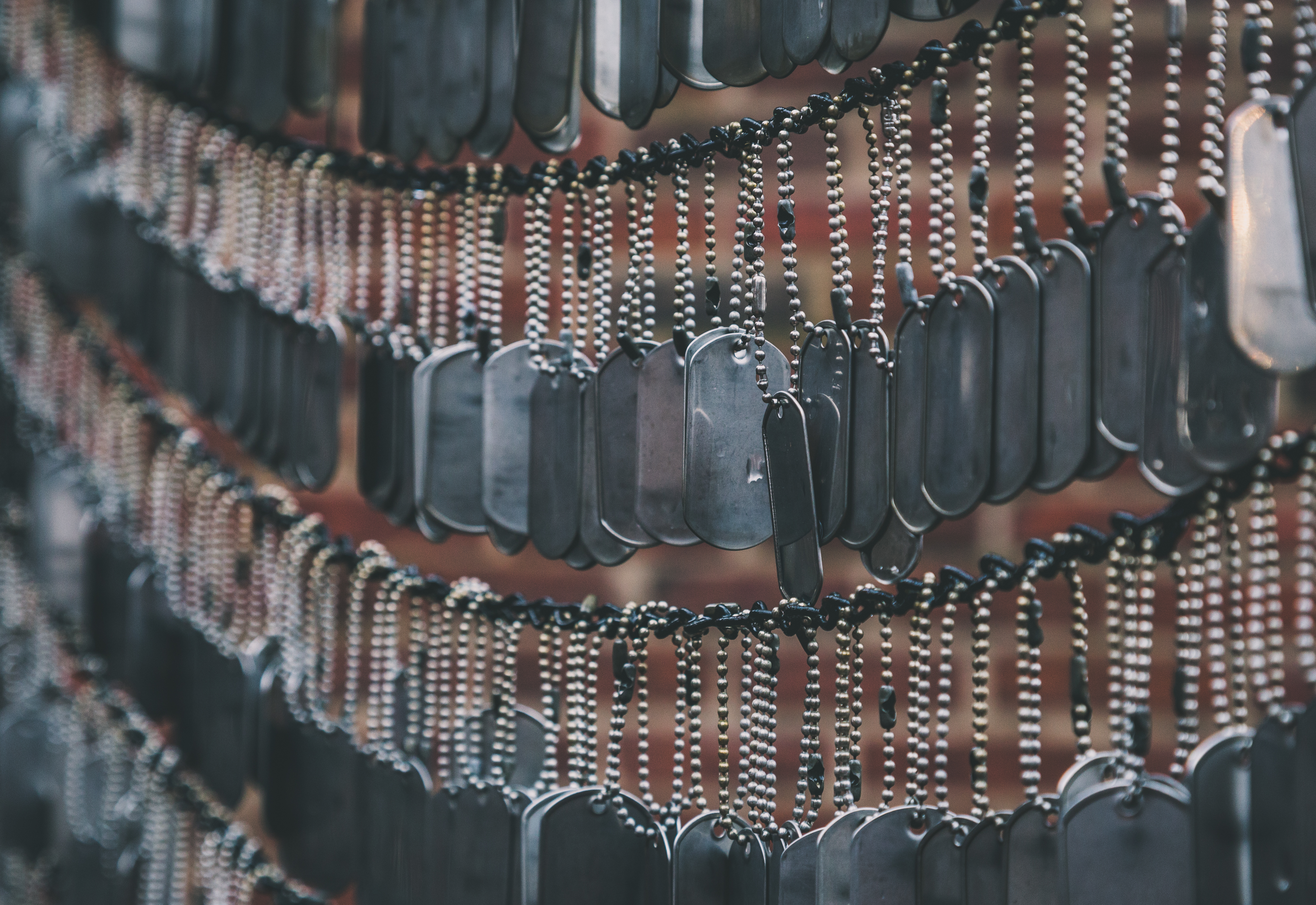 Along the Freedom Trail near Old North Church in Boston, Massachusetts.